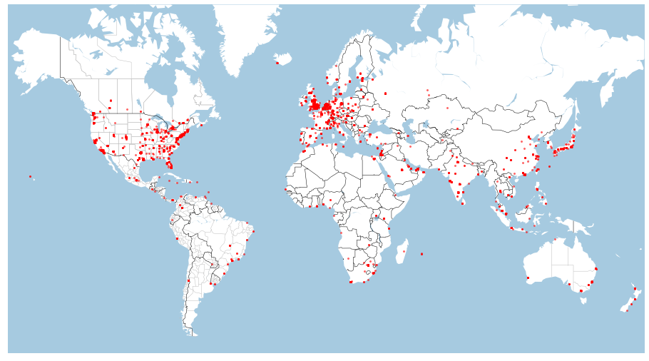 IWG plc operates several brands including Regus, Spaces, and No88.